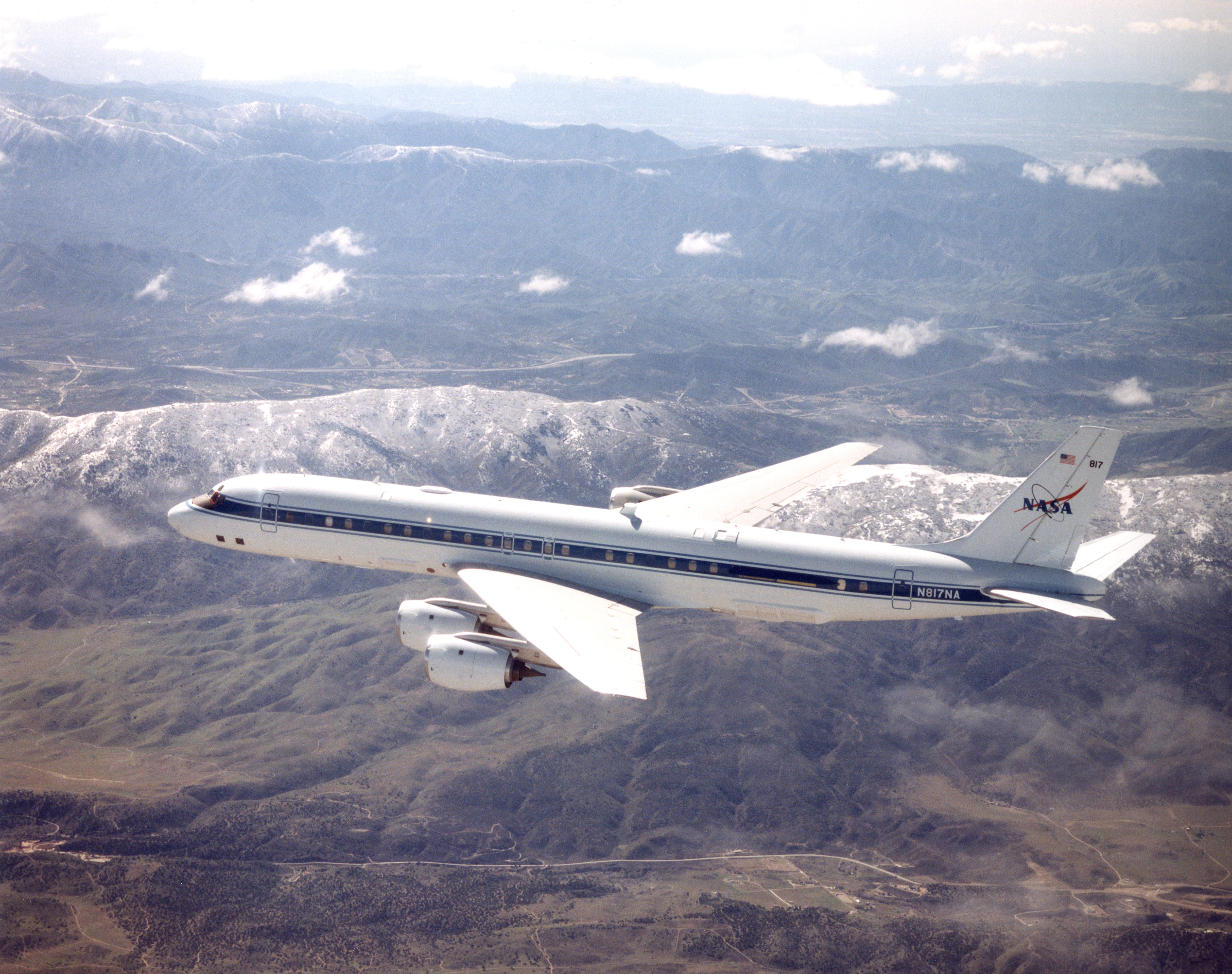 NASA DC-8 airborne laboratory flying over Mint Canyon and the Sierra Pelona Mountains in the foreground, and the snow-covered San Gabriel Mountains in the distance, in Los Angeles County, Southern California. The mostly white aircraft is silhouetted against the darker mountains in the background. NASA used a DC-8 aircraft as a flying science laboratory. The platform aircraft, was based at NASA's Dryden Flight Research Center, Edwards, Calif., collected data for many experiments in support of scientific projects serving the world scientific community. Included in this community were NASA, federal, state, academic and foreign investigators. Data gathered by the DC-8 at flight altitude and by remote sensing has been used for scientific studies in archeology, ecology, geography, hydrology, meteorology, oceanography, volcanology, atmospheric chemistry, soil science and biology.